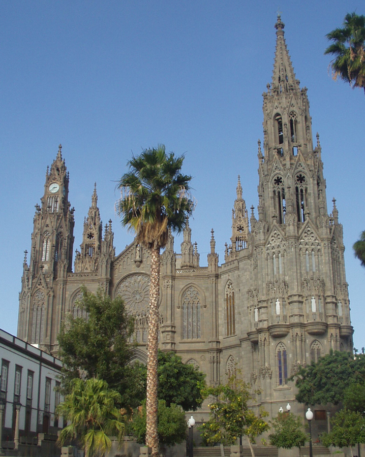 Arucas_Kathedrale